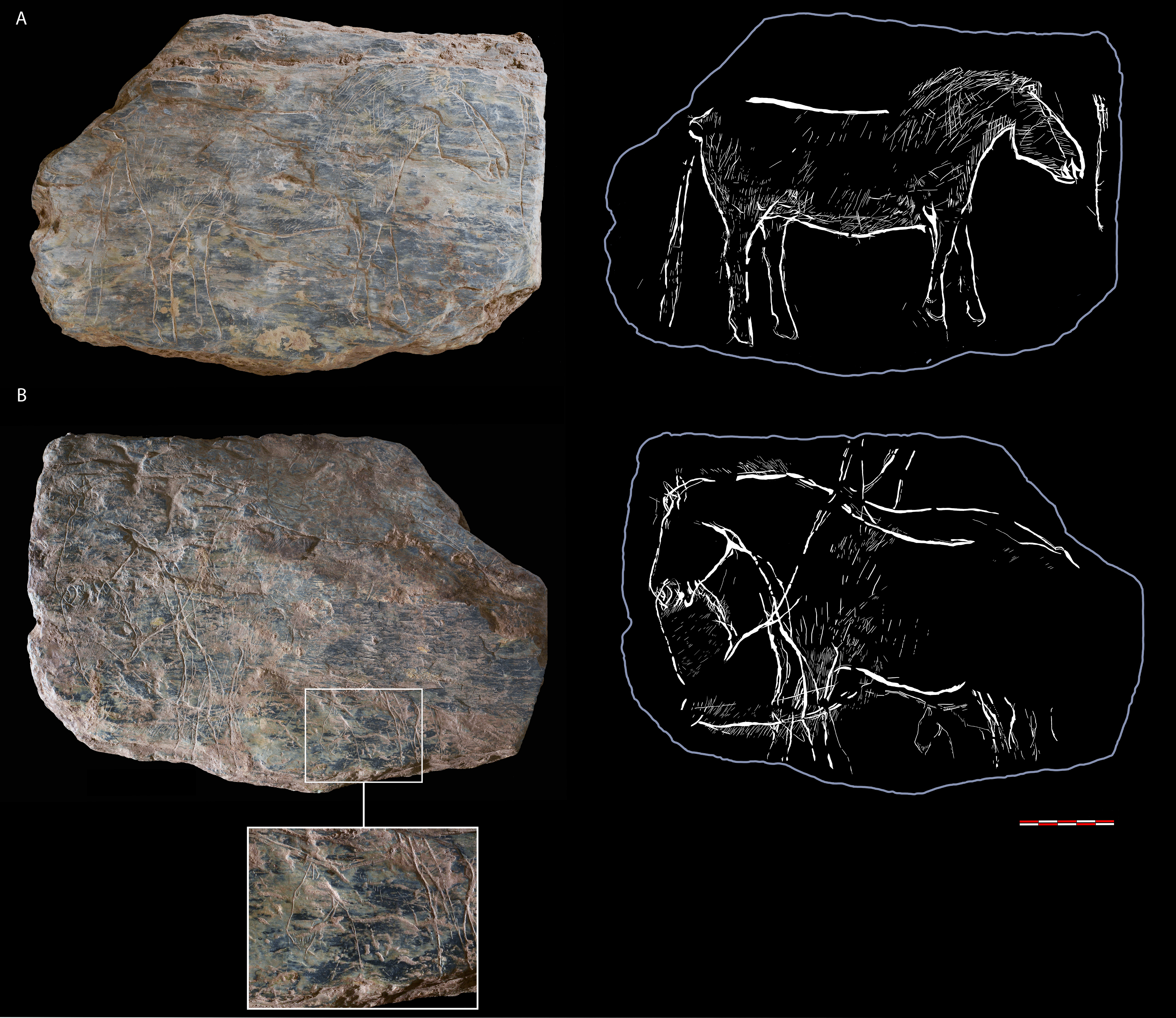 Fig 6. Tablet 741 with bifacial ornamentation: side A) complete horse; side B) a special composition of two horses complete horses in axial symmetry–one complete and one headstock—and together with a small horse restricted to its head and neckprotomé by the hind legs (photos N. Naudinot; sketch C. Bourdier).